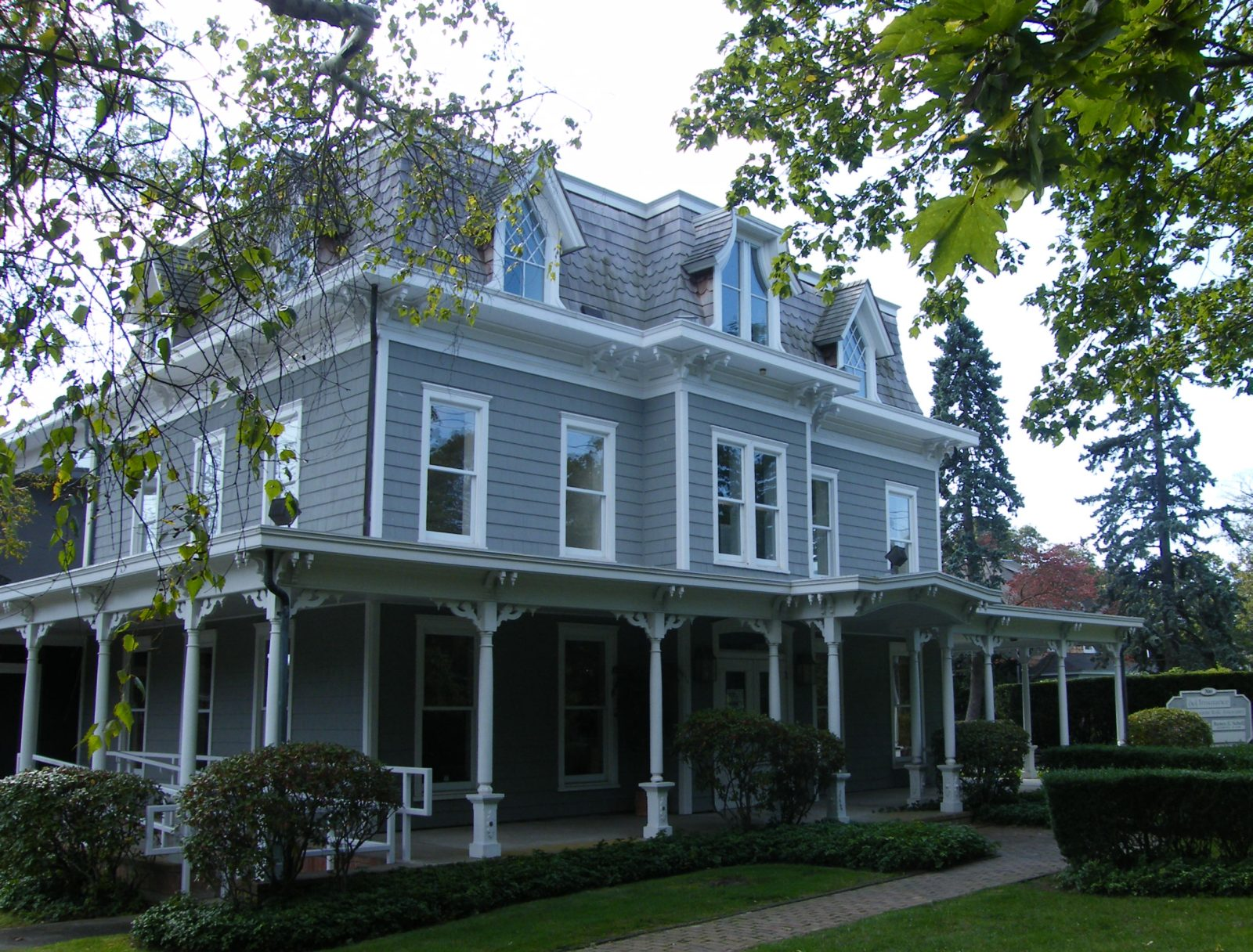 300 Hampton Road